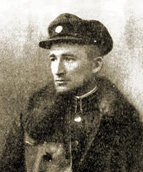 Andriy Melnyk, ukrainian military.